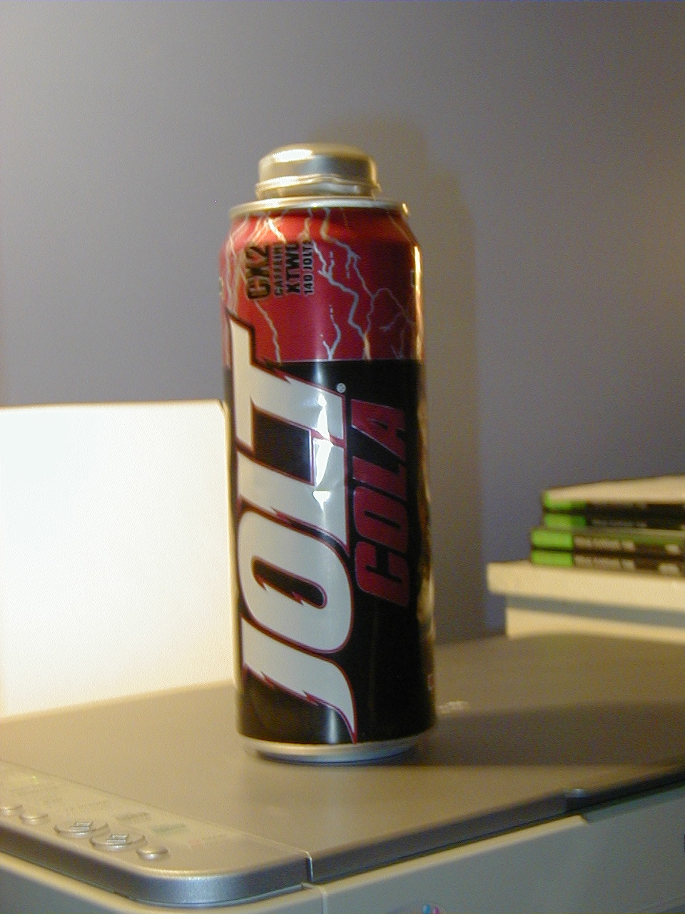 Jolt's new battery bottle, viewed from the front. This stuff really is good!!